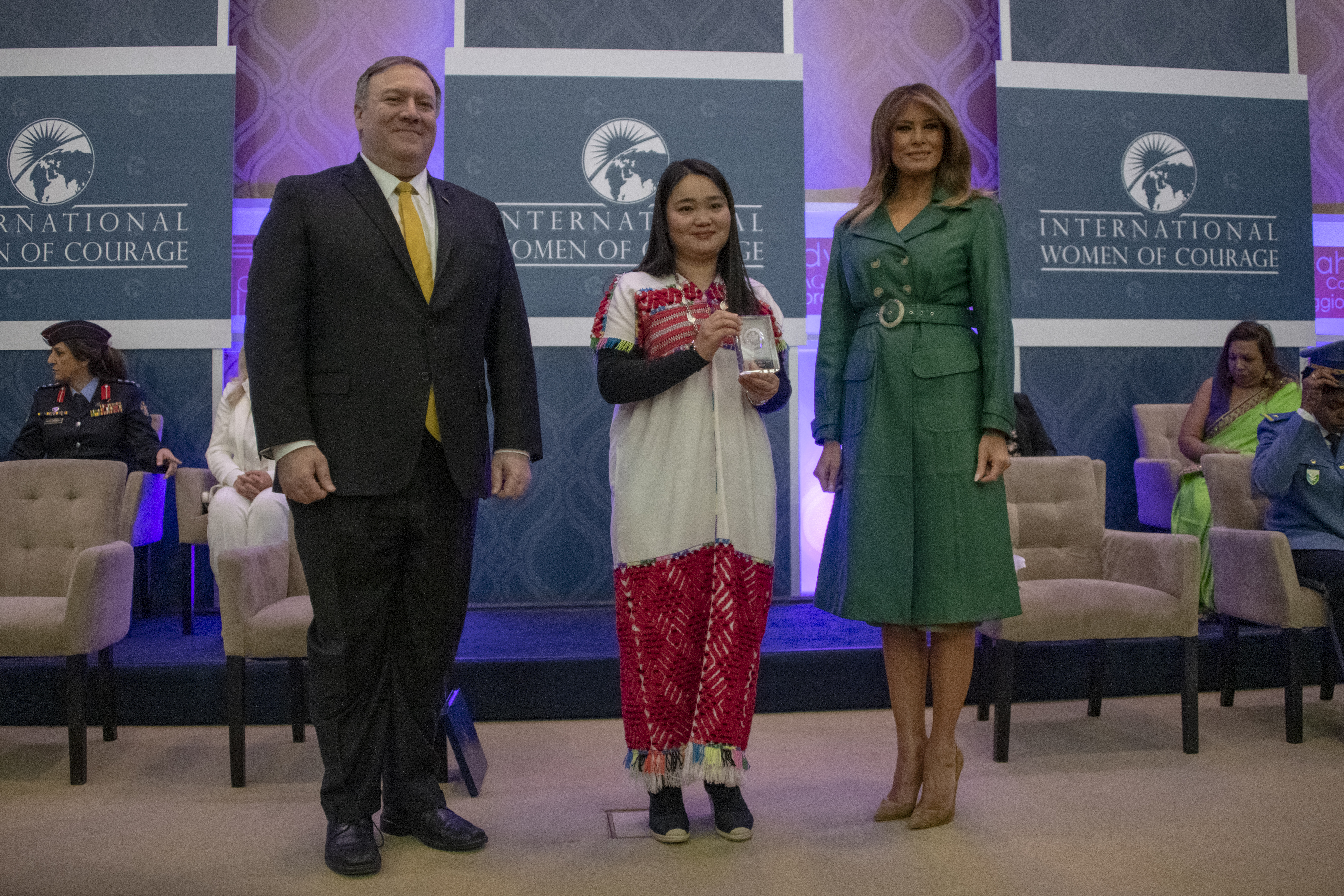 U.S. Secretary of State Michael R. Pompeo and First Lady of the United States Melania Trump present Naw K’nyaw Paw from Burma with the 2019 International Women of Courage (IWOC) Award during the ceremony at the U.S. Department of State in Washington, D.C., on March 7, 2019. [State Department photo by Ron Pryzsucha/ Public Domain]